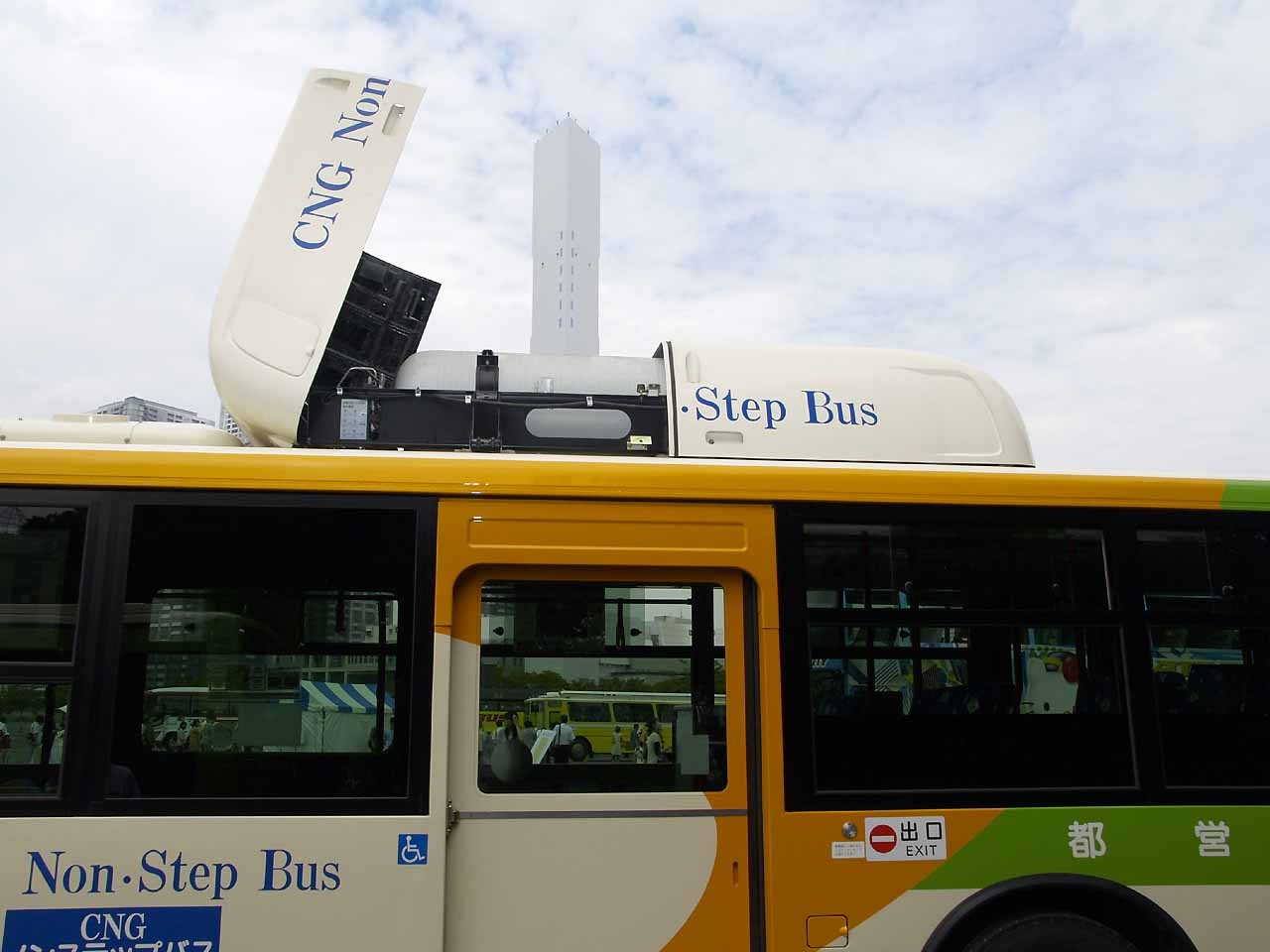 Detail of Mitsubishi Fuso Aero Star MP non-step bus (CNG version), gas tank cover opened front side.